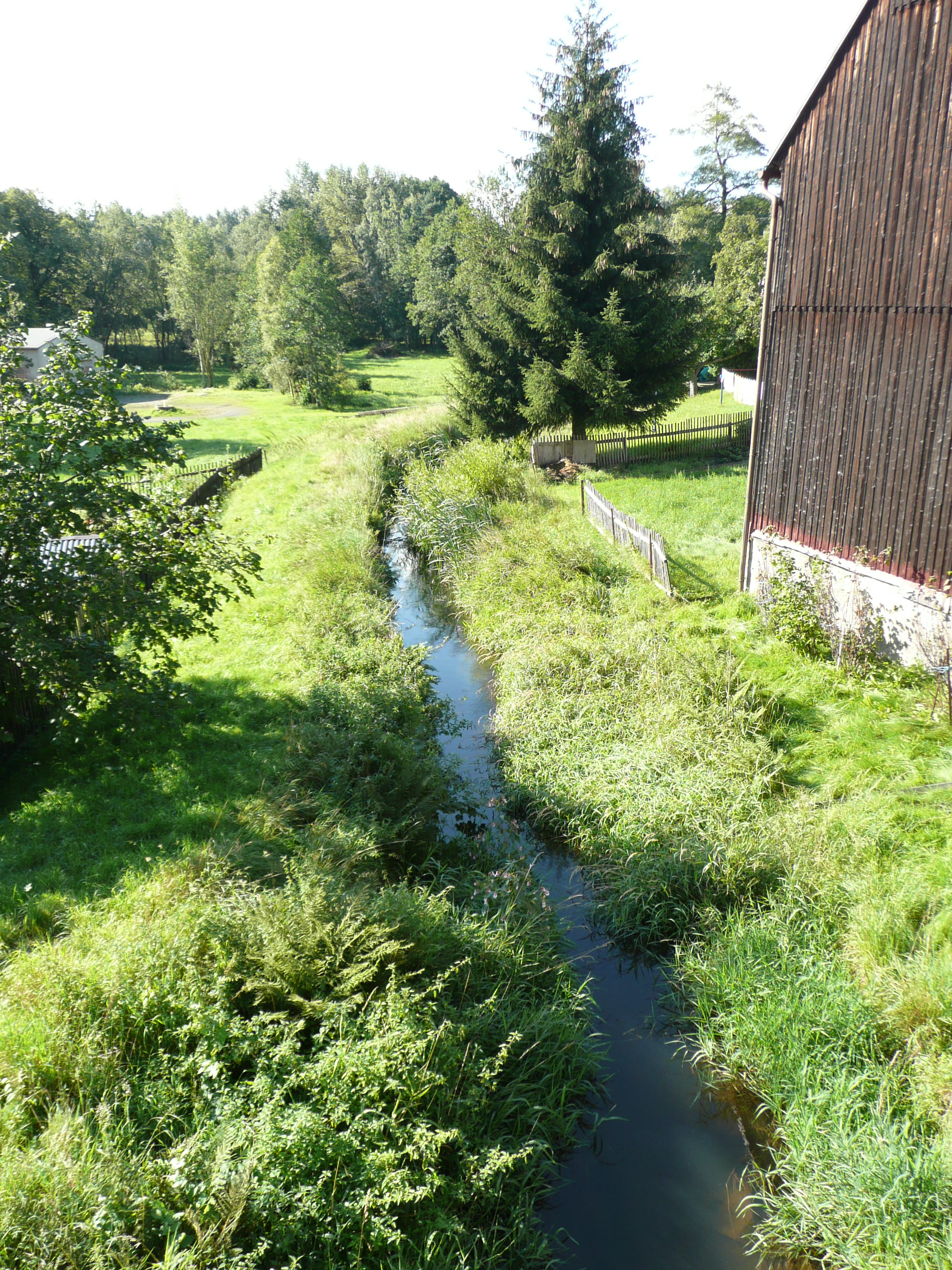 Churprinzer Bergwerkskanal in Großschirma, Erzgebirge